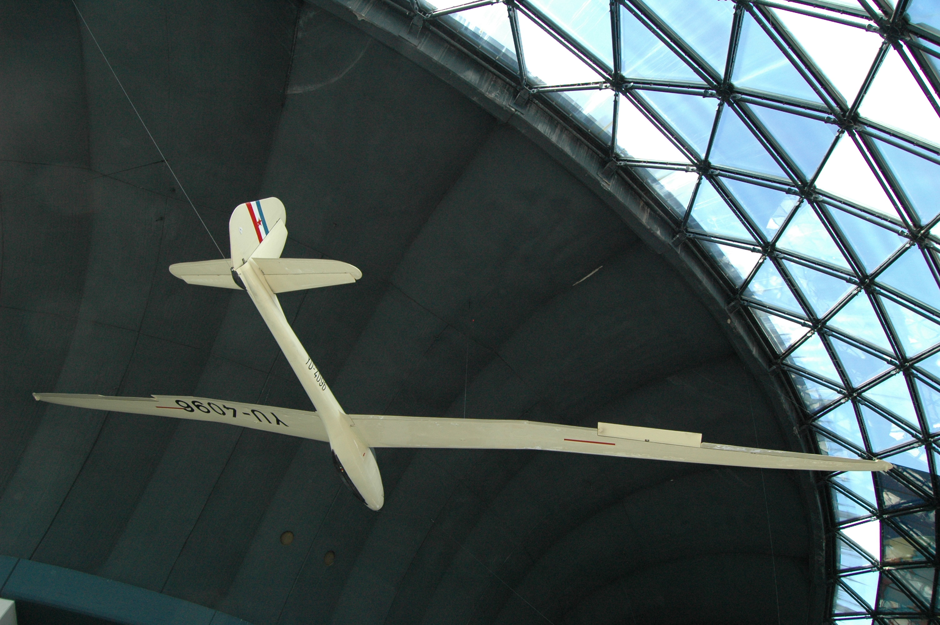 Ikarus Orao 2C